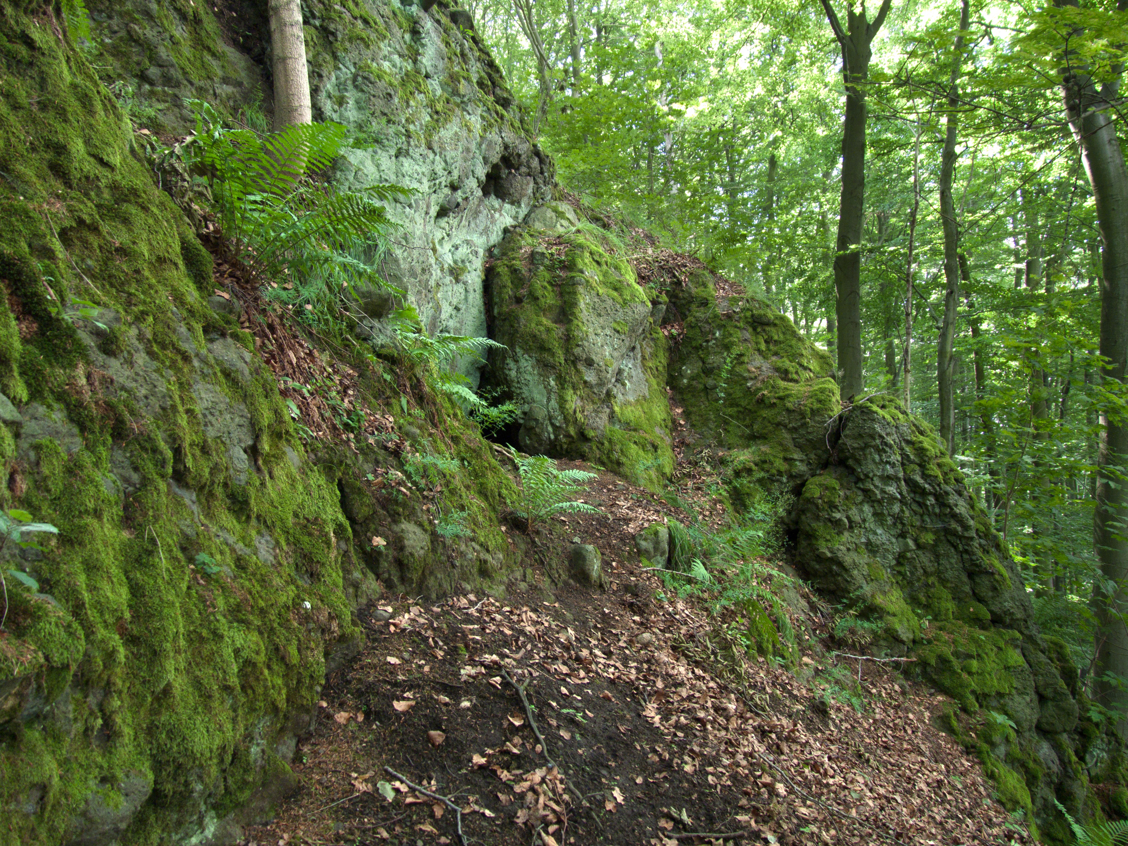 Rock in Skalky skřítků, a geomorphological formation in Karlovy Vary District, Czech Republic